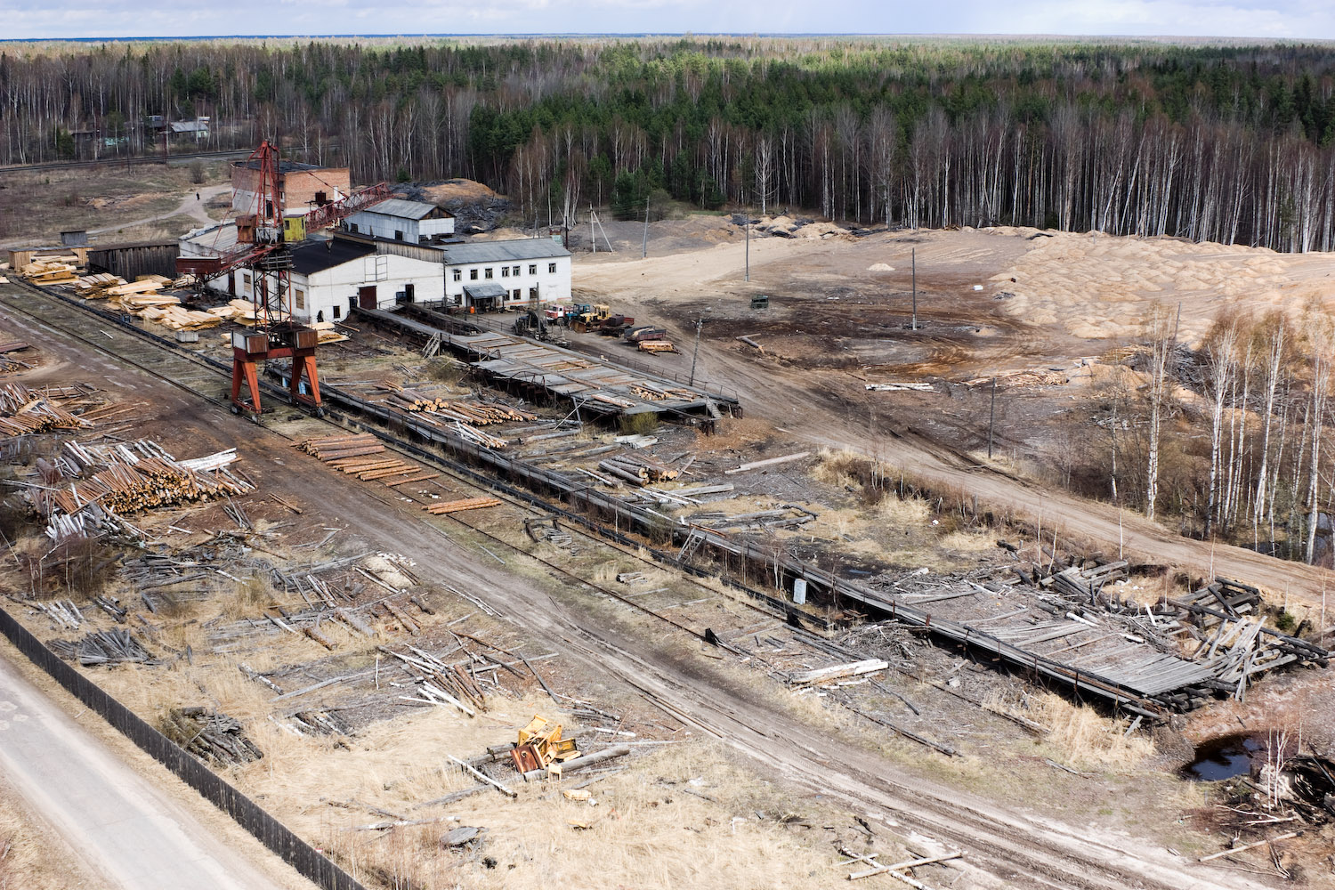 Sawmill in Bystrukha, Nizhny Novgorod Oblast. View from tower.